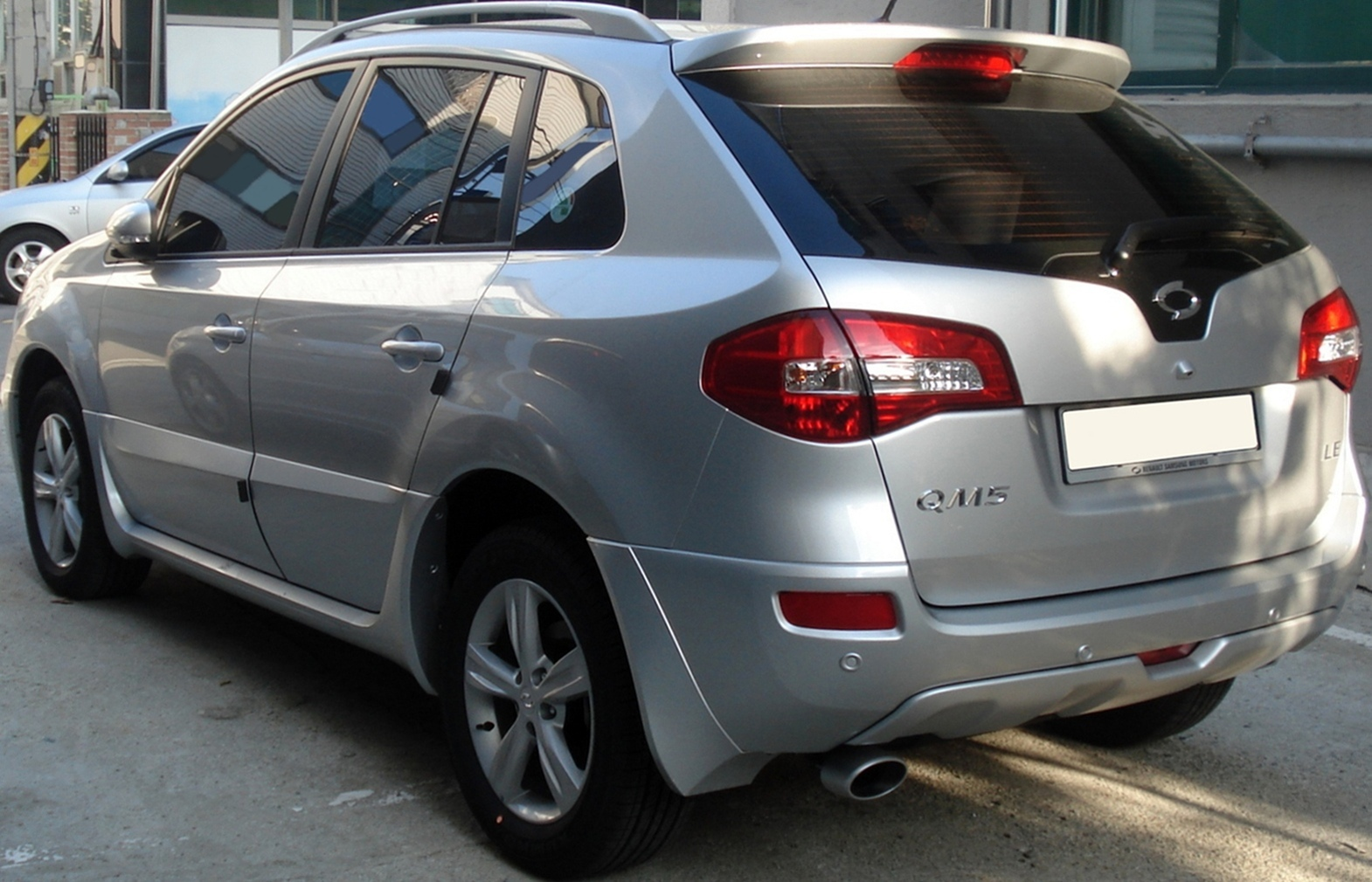 Renault Samsung New QM5